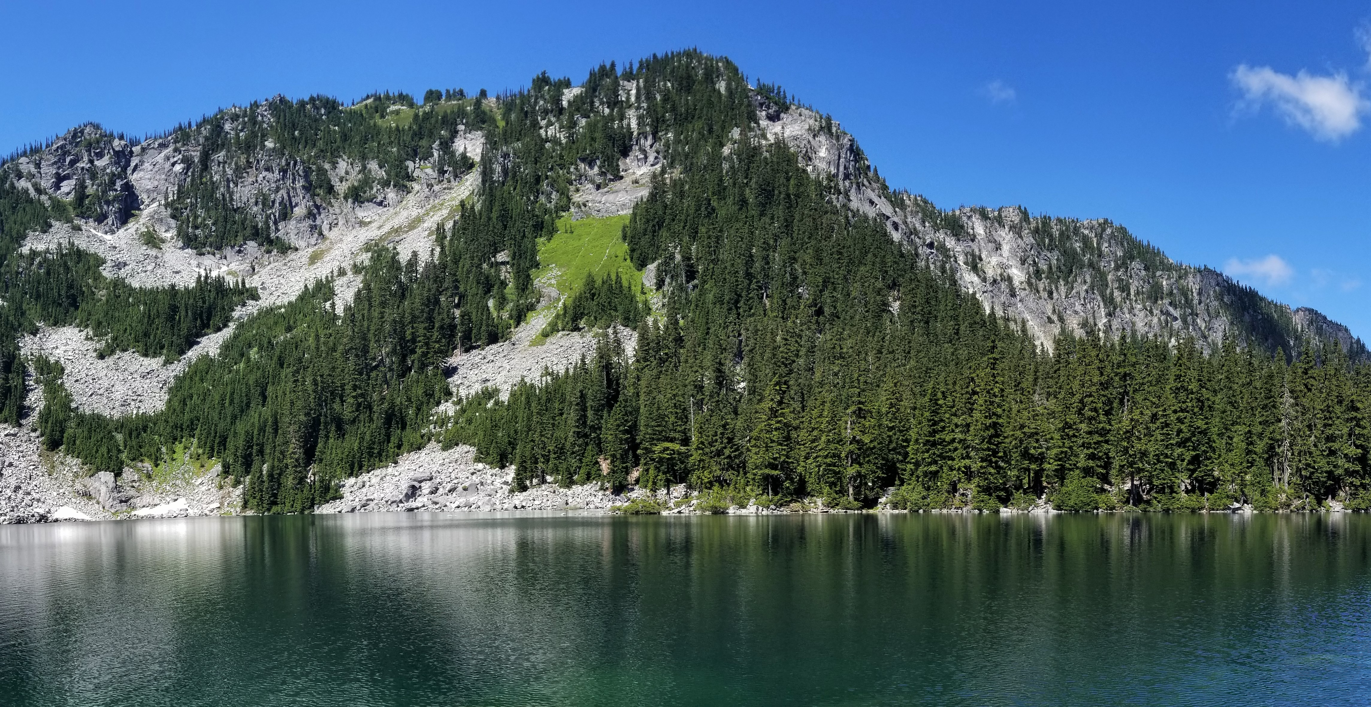 Spark Plug Mountain, east aspect, from Glacier Lake